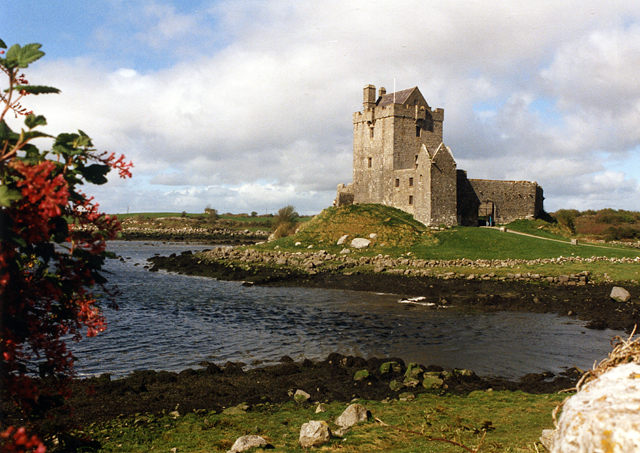 Dungory Castle, near to Kinvara, Cartrongarv, Ballyclery, Loughcurra and Cloonnasee, Galway, Ireland.